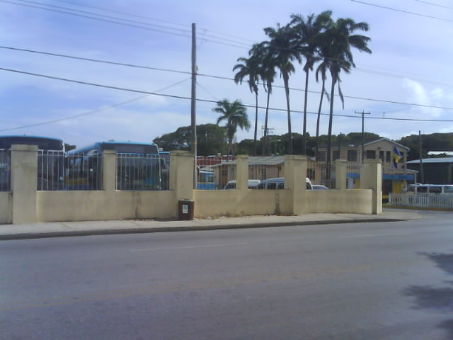 The headquarters of the Barbados Transport Board at Kays House, Roebuck Street, St. Michael.